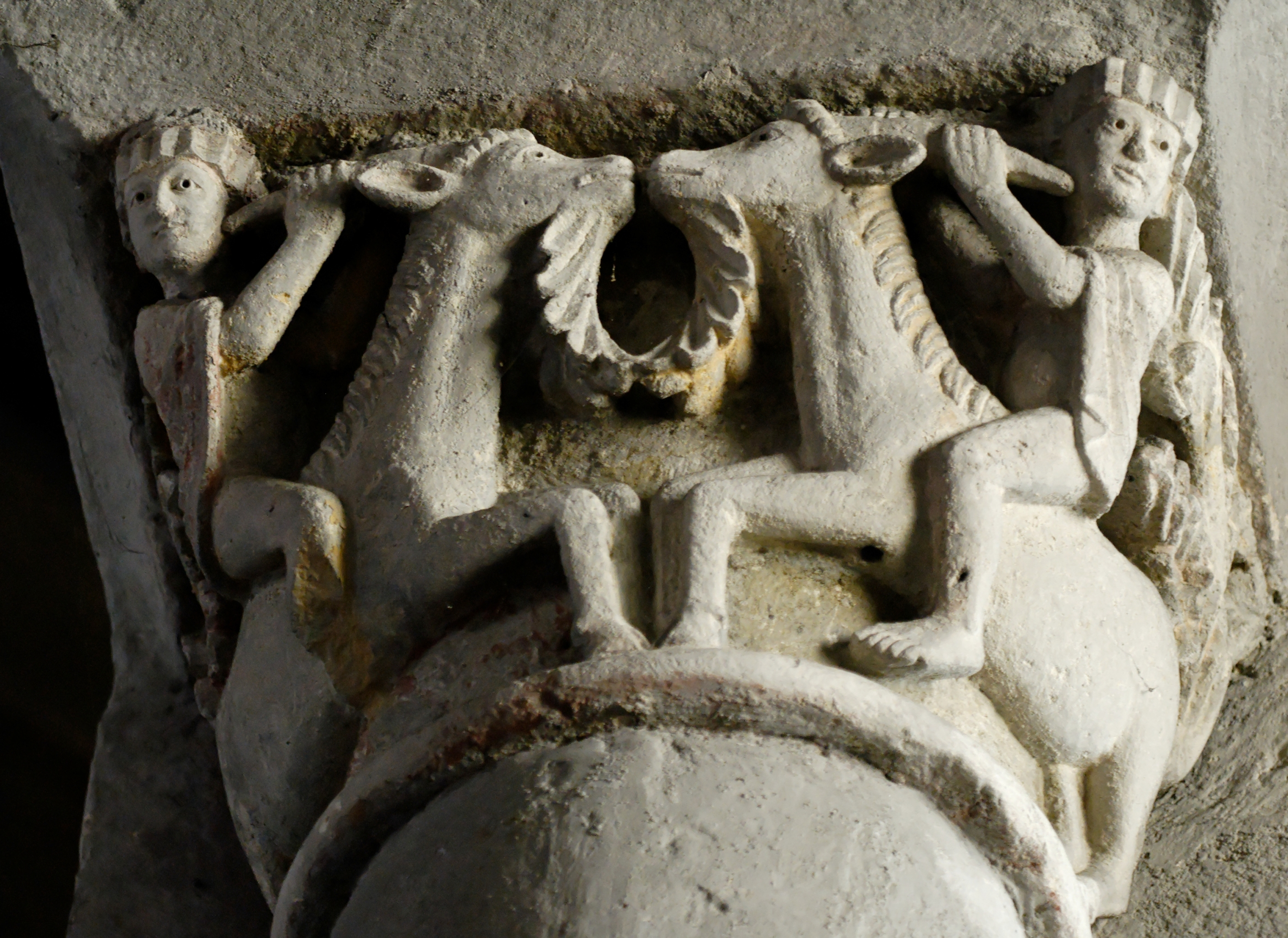 Youths riding goats. Sculpted capital from the nave of the abbey-church in Mozac, 12th century.